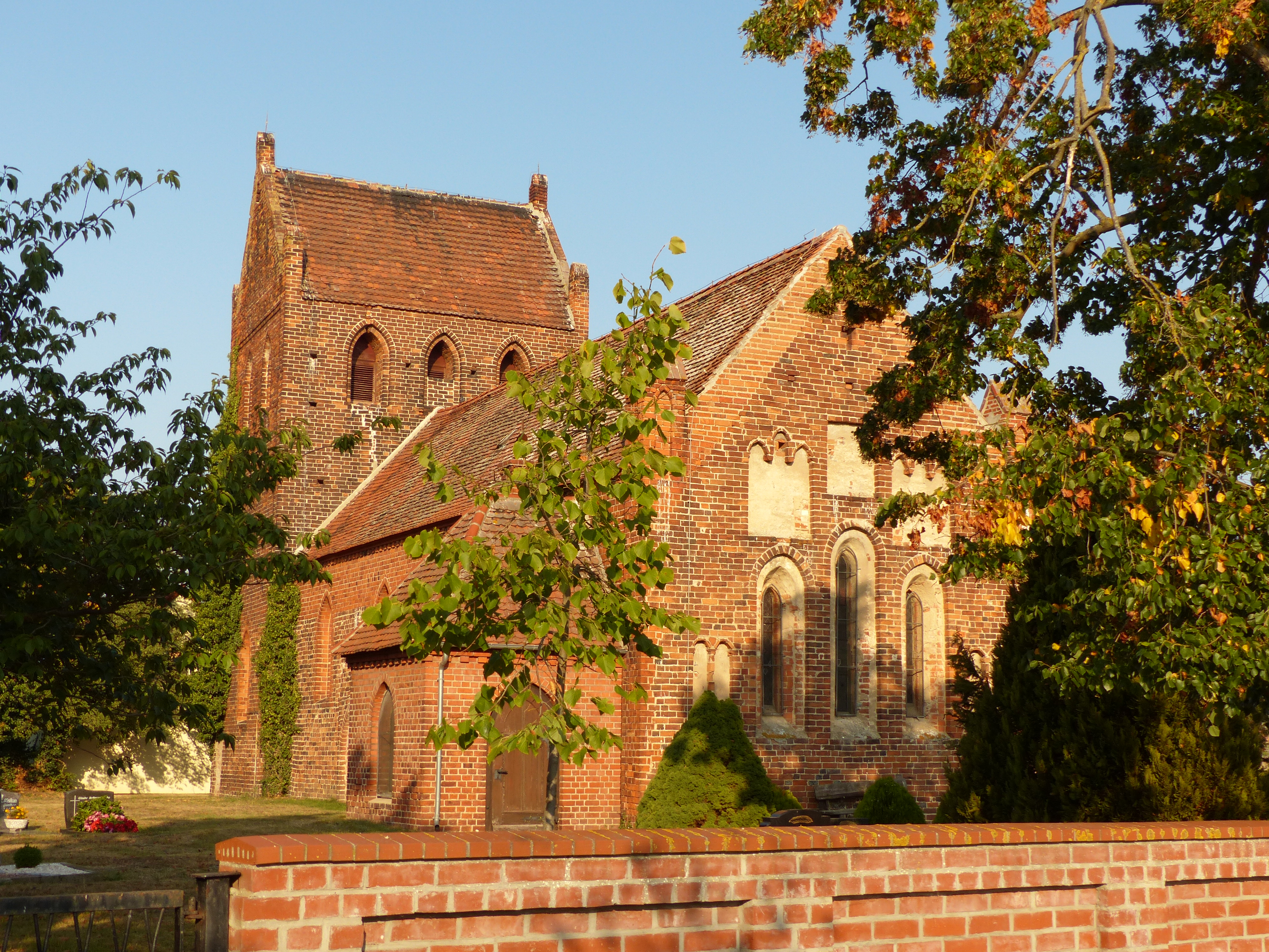 Brick Gothic village church of Rengerslage, municipality of Königsmark, Landkreis Stendal